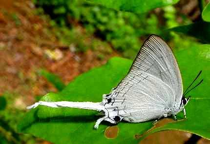 Common Imperial (Cheritra freja) photographed in Aralam, Kerala, India.